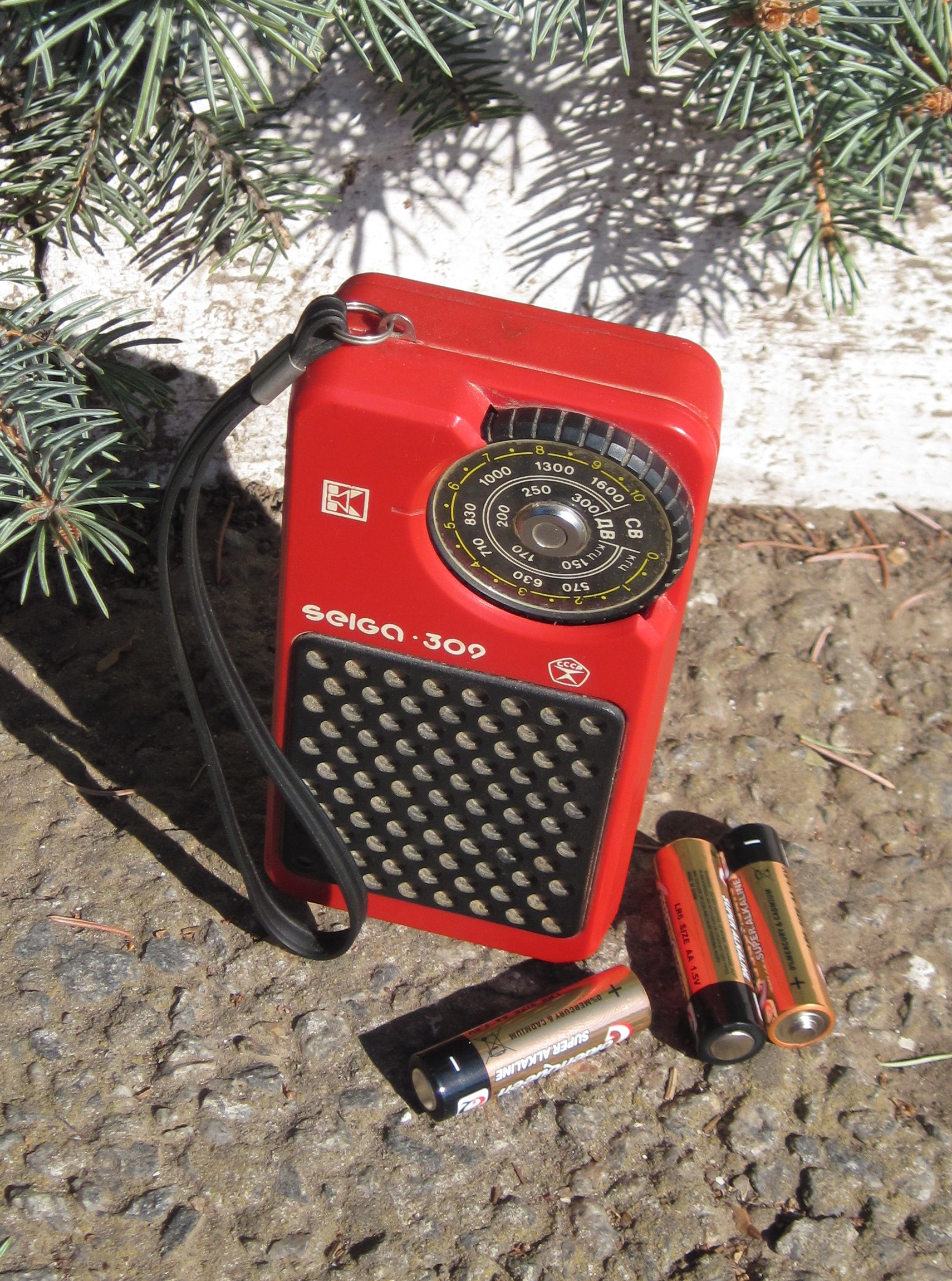 Selga-309 pocket AM receiver, USSR, 1985